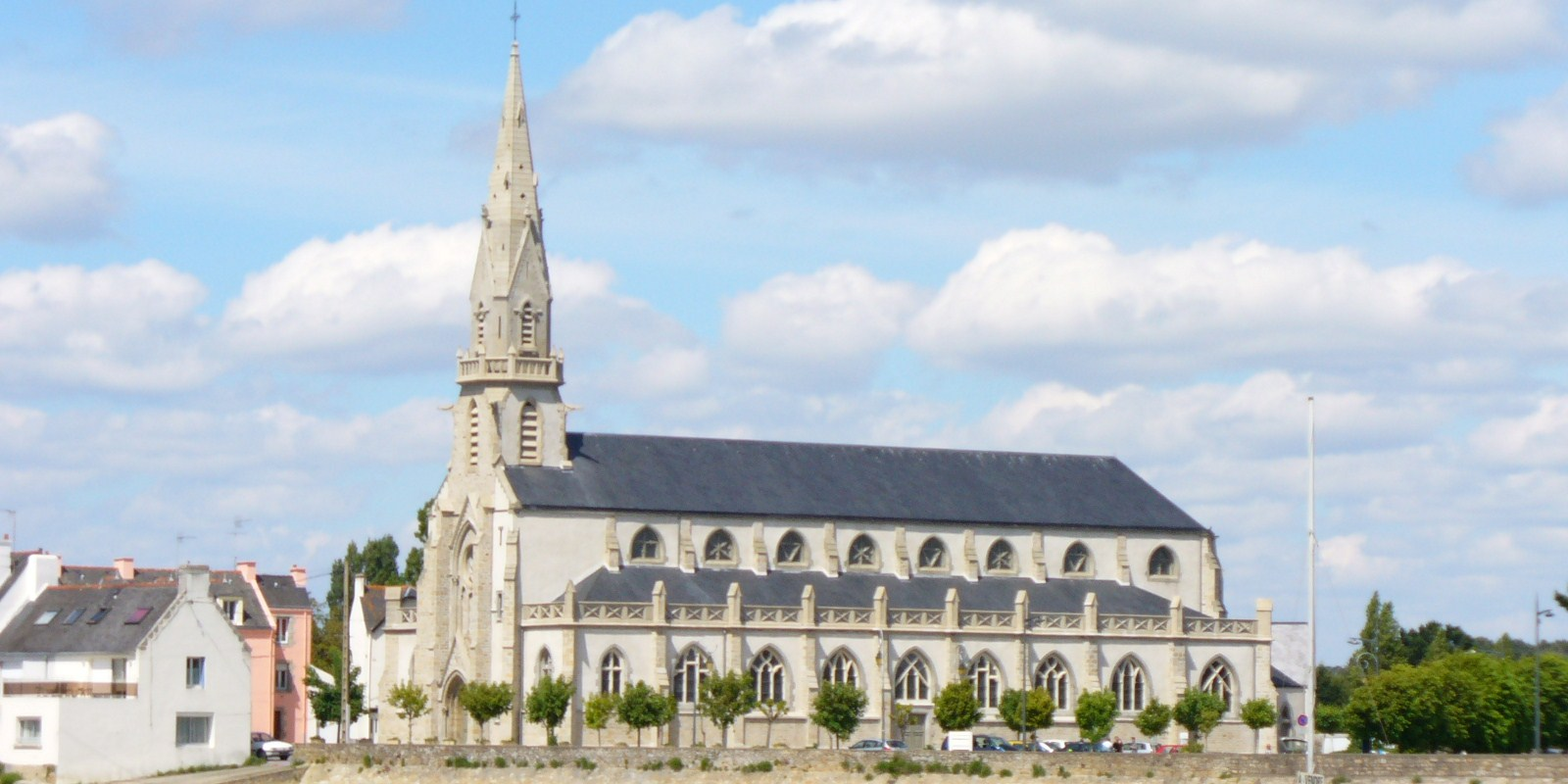 Riantec